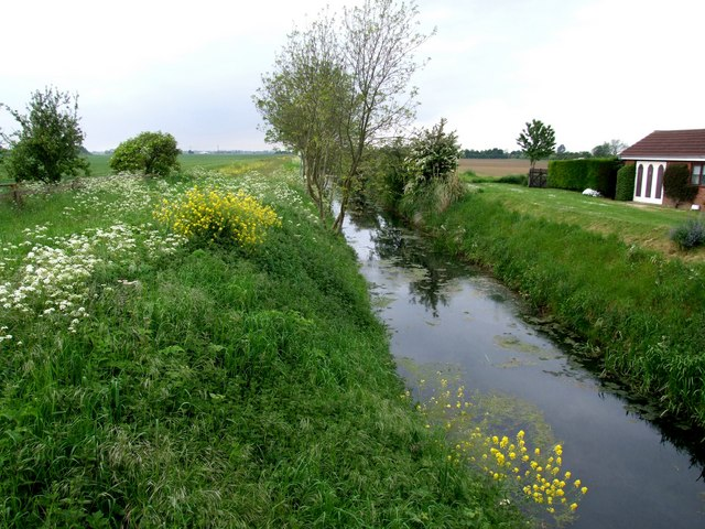 East Fen Catchwater Drain, Toynton Fen Side Looking westwards, from the road bridge.